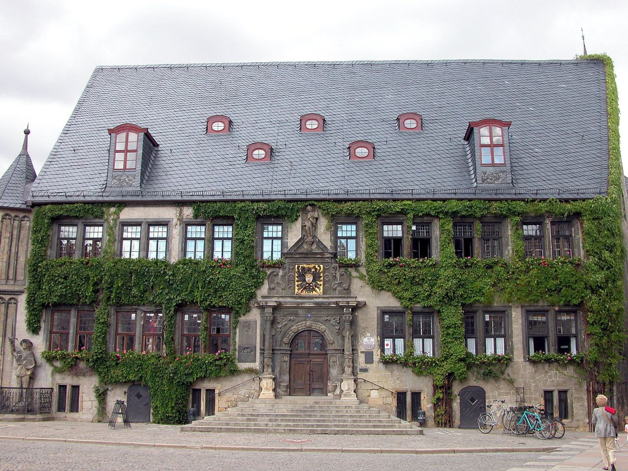 Quedlinburg, Germany: Town Hall.